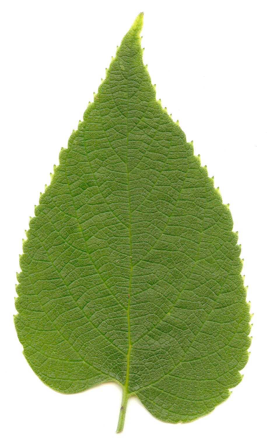 A digital scan of the Celtis occidentalis leaf showing shape and vein structure.